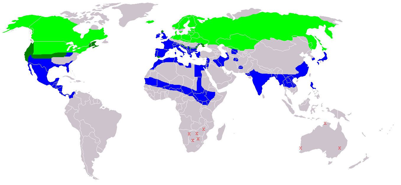 Habitat of Anas acuta Light Green - nesting area Blue - wintering area Dark Green - resident all year Red X - Vagrant